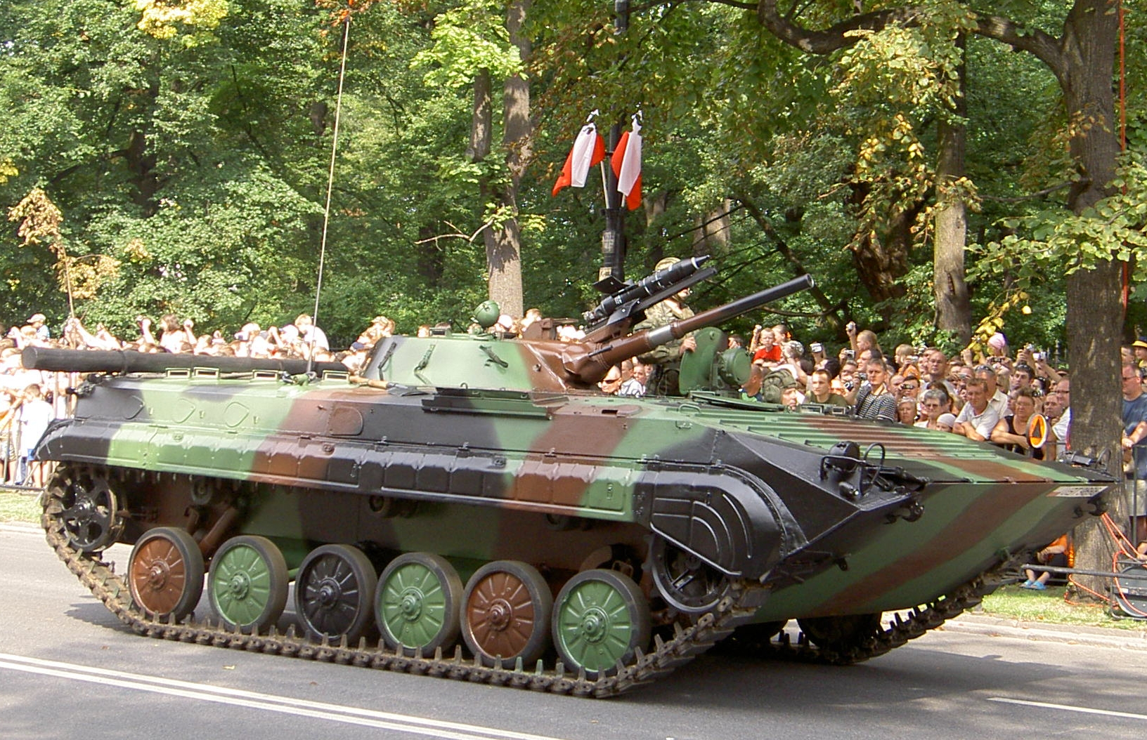 Polish BWP-1 infantry fighting vehicle in Warsaw on a military parade during Polish Army Day.